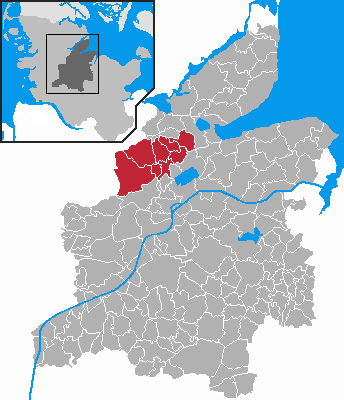 This map shows the area of the Amt (county) Hütten in the Kreis (district) Rendsburg-Eckernförde, Schleswig-Holstein, Germany.